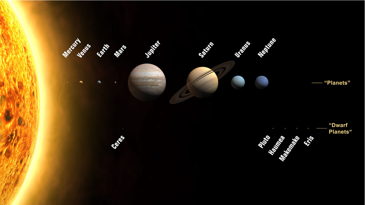 Planets and dwarf planets of the solar system